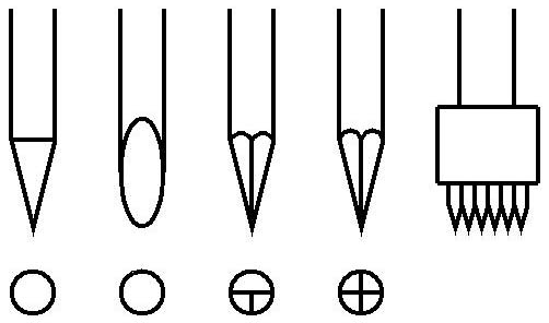 Engraving needles